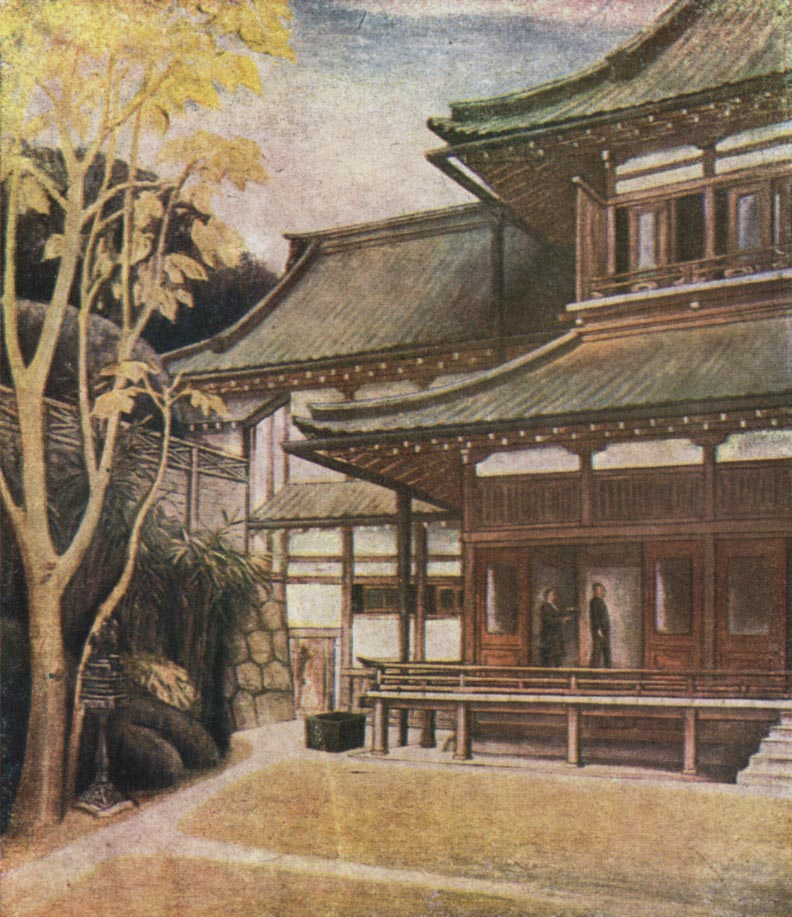 Picture of the granting of the Imperial Rescript on Education.